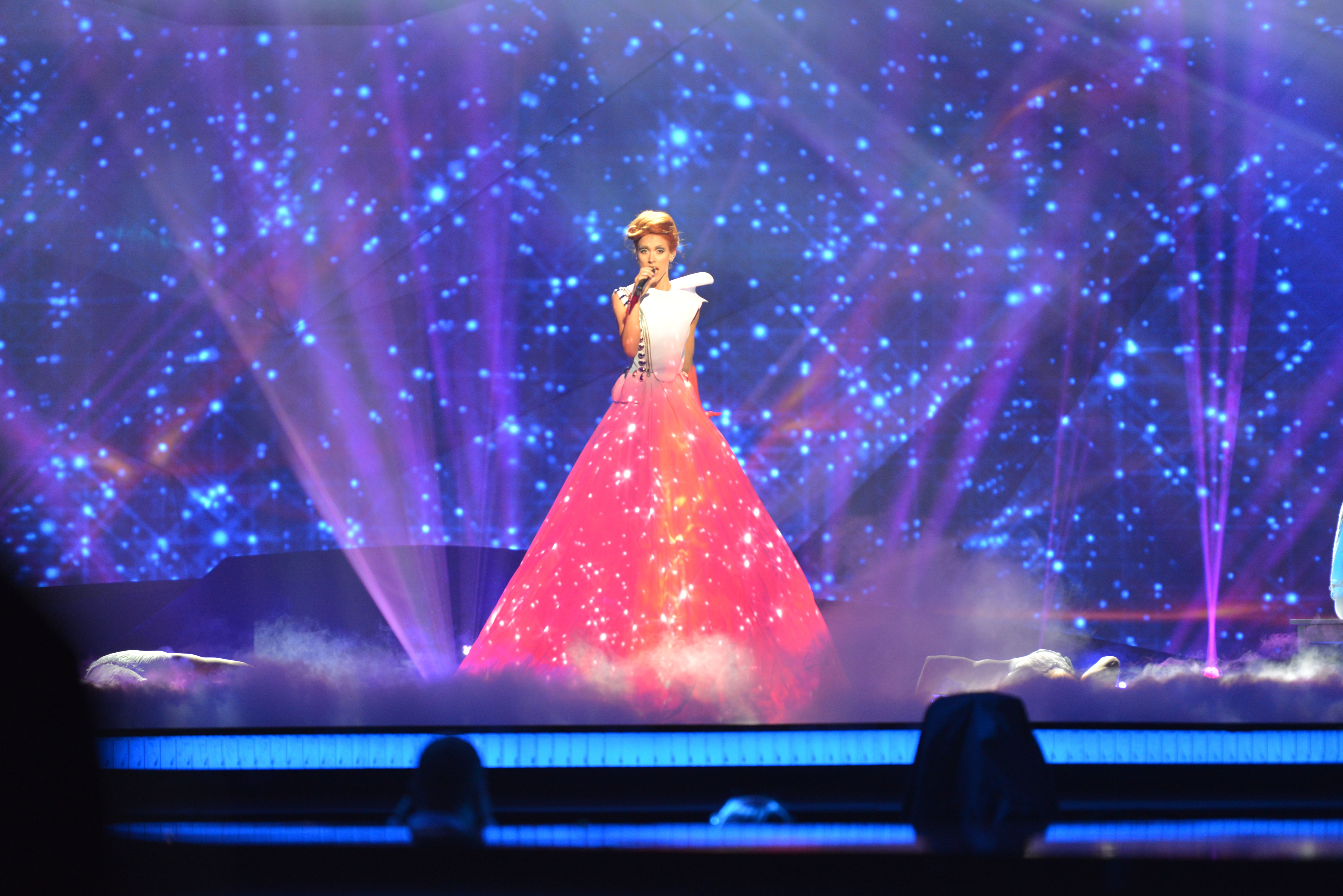 Aliona Moon representing Republic of Moldova with the song "O mie" during the first dress rehearsal of the first semi final of the Eurovision Song Contest 2013 in Malmö. (Help translate this text)